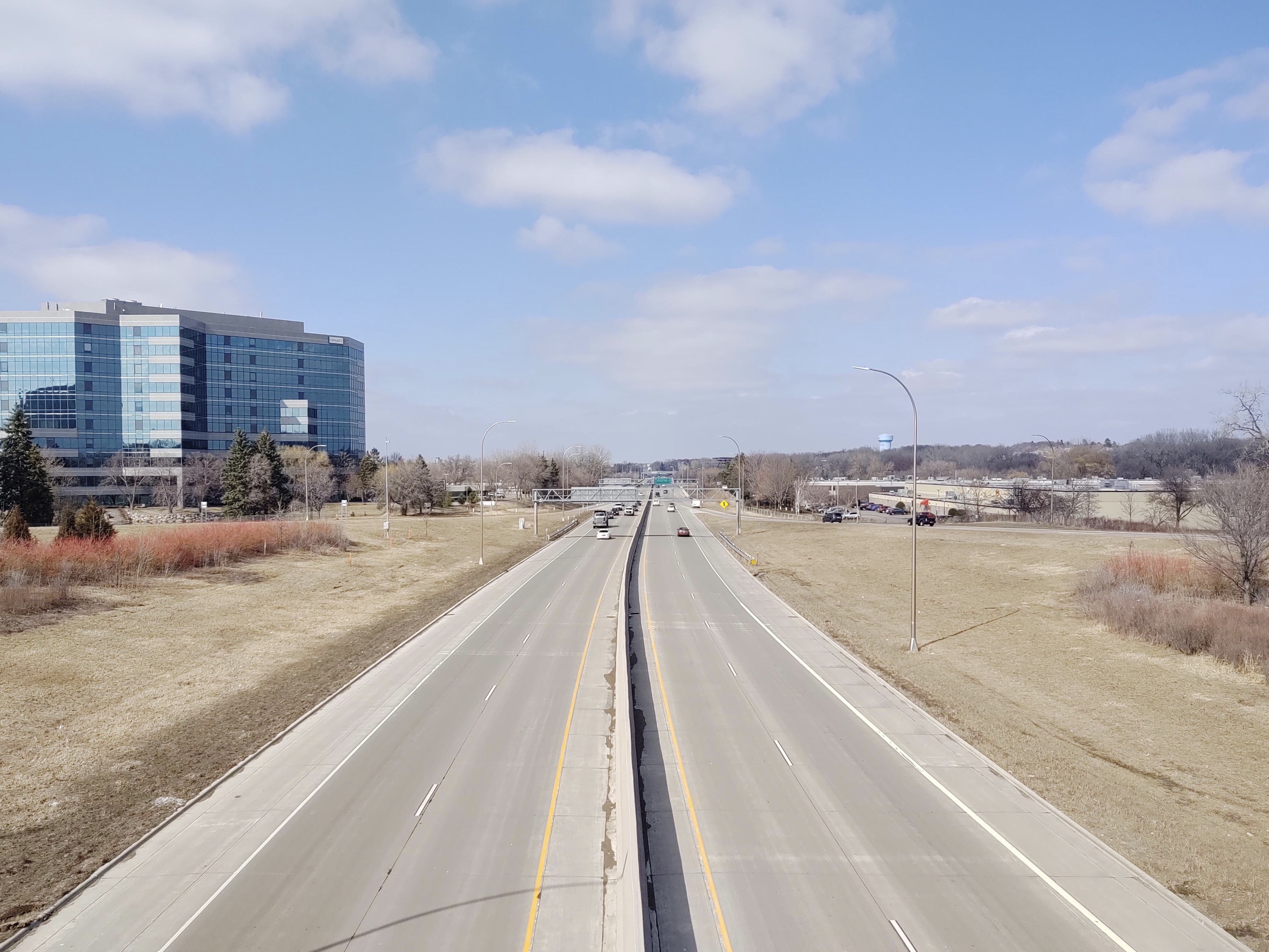 Looking north from Bren Road